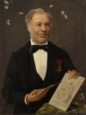 Self portrait